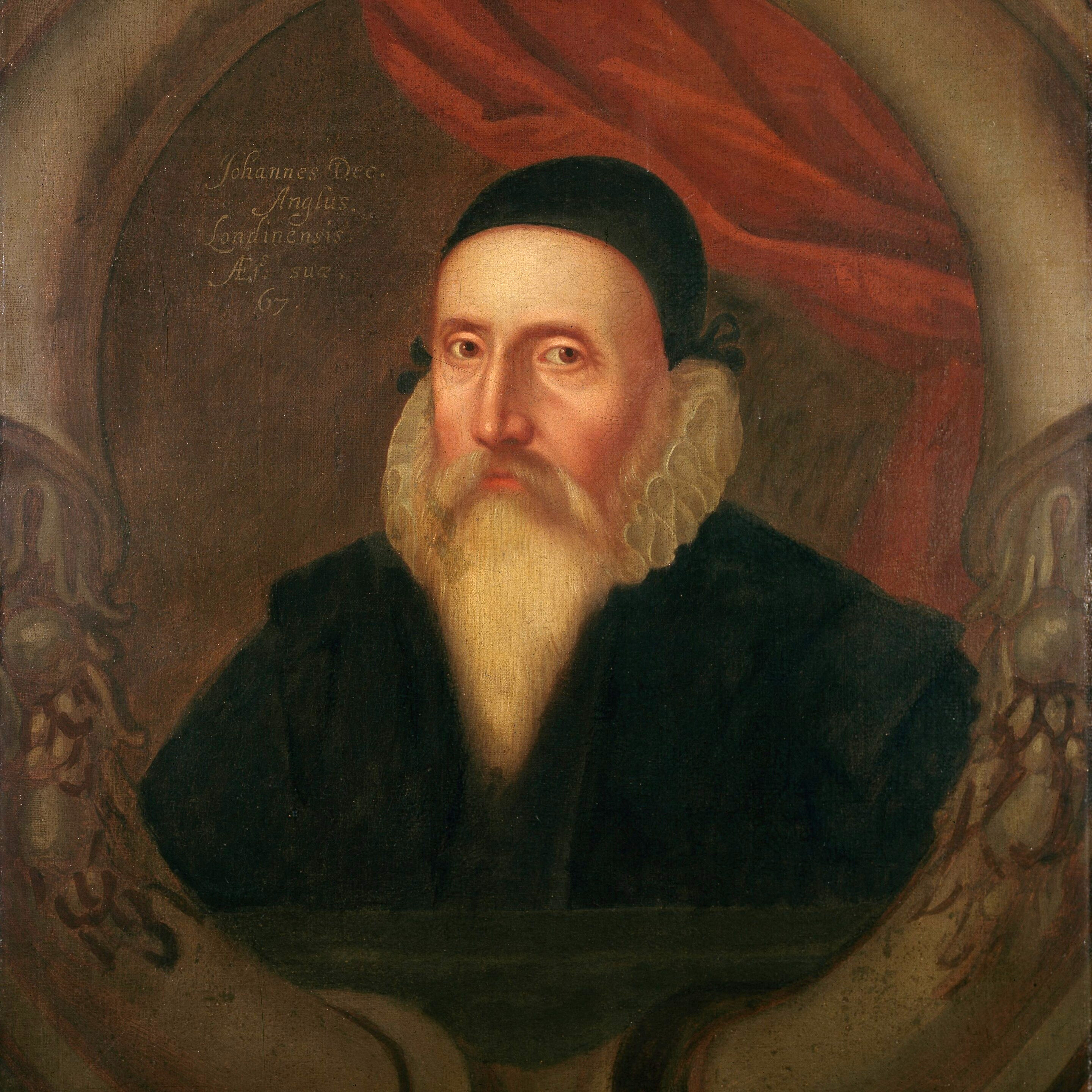 According to Charlotte Fell Smith, this portrait was painted when Dee was 67. It belonged to his grandson Rowland Dee and later to Elias Ashmole, who left it to Oxford University.